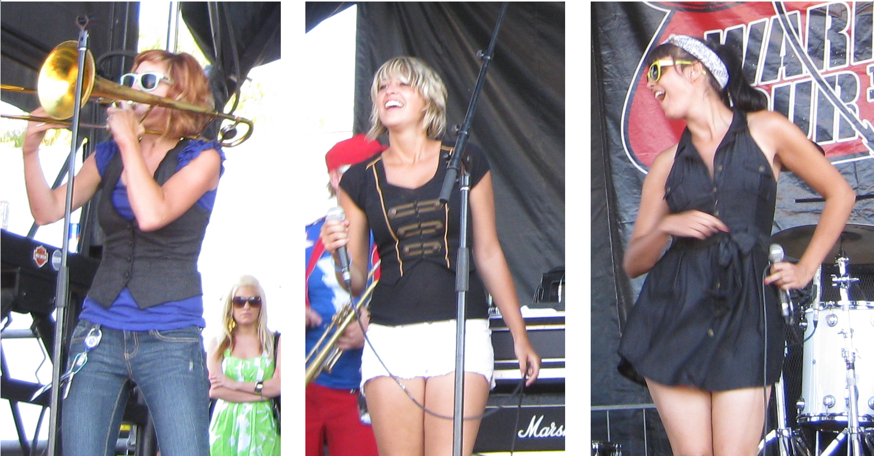 Members of Tip the Van performing onstage with Reel Big Fish on the Warped Tour at the Cricket Wireless Amphitheatre in Chula Vista, California on August 10, 2010. Left to right: Stephanie Allen, Simone Oliva, and Nicole Oliva.